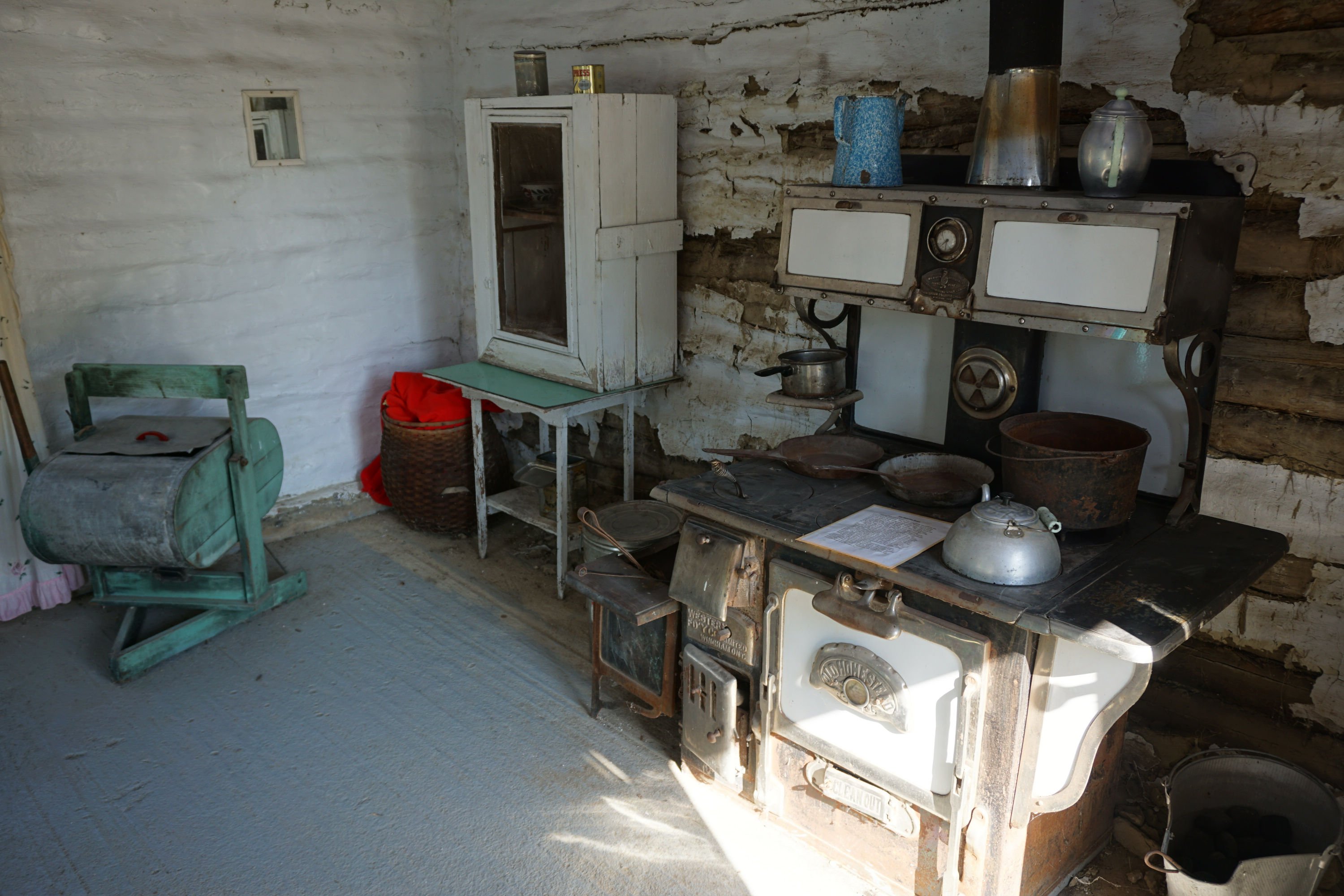 Delorme one-room log cabin interior Broadview Historical Museum, Broadview Saskatchewan